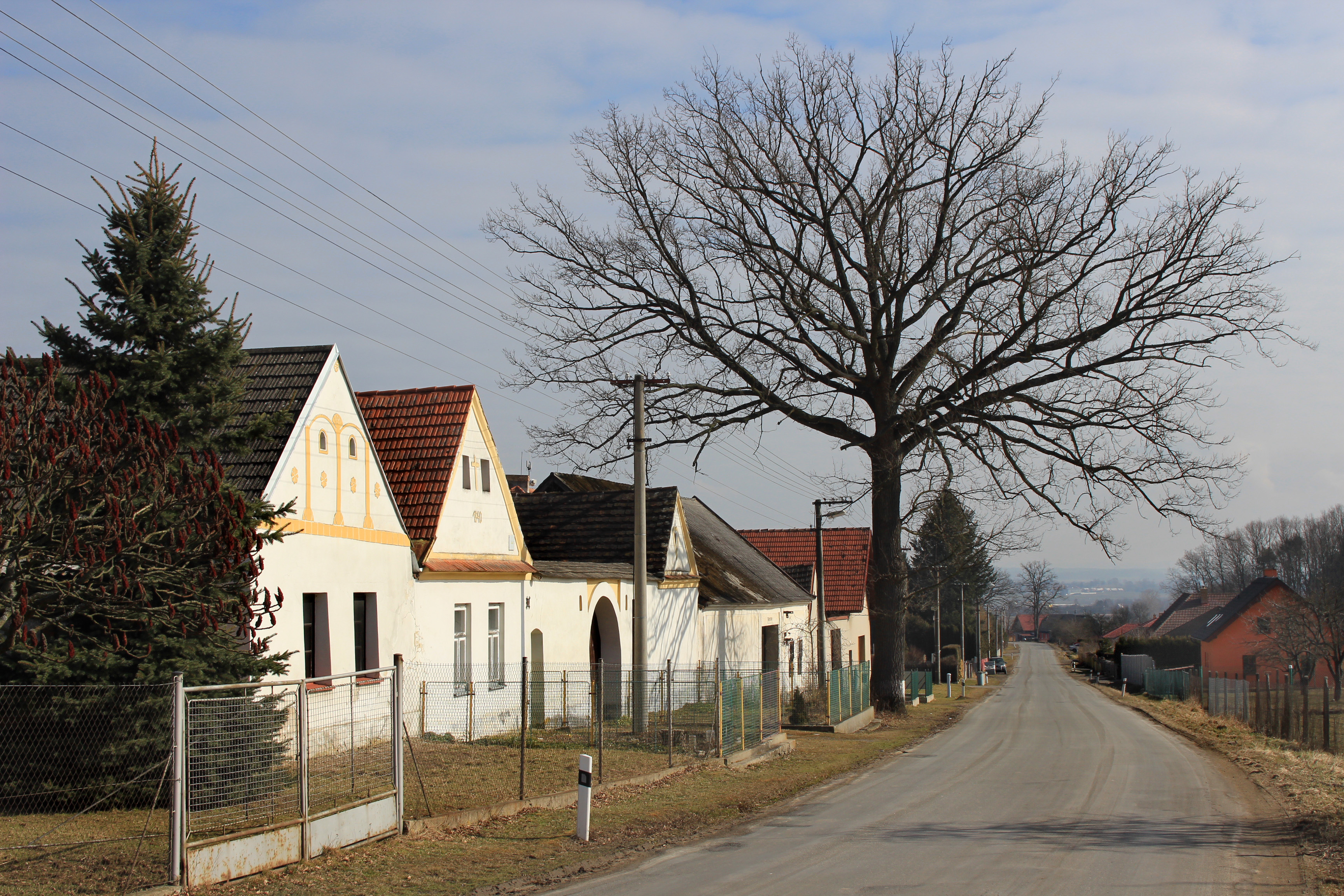 Road No. 135 Vesce village, Czech Republic.